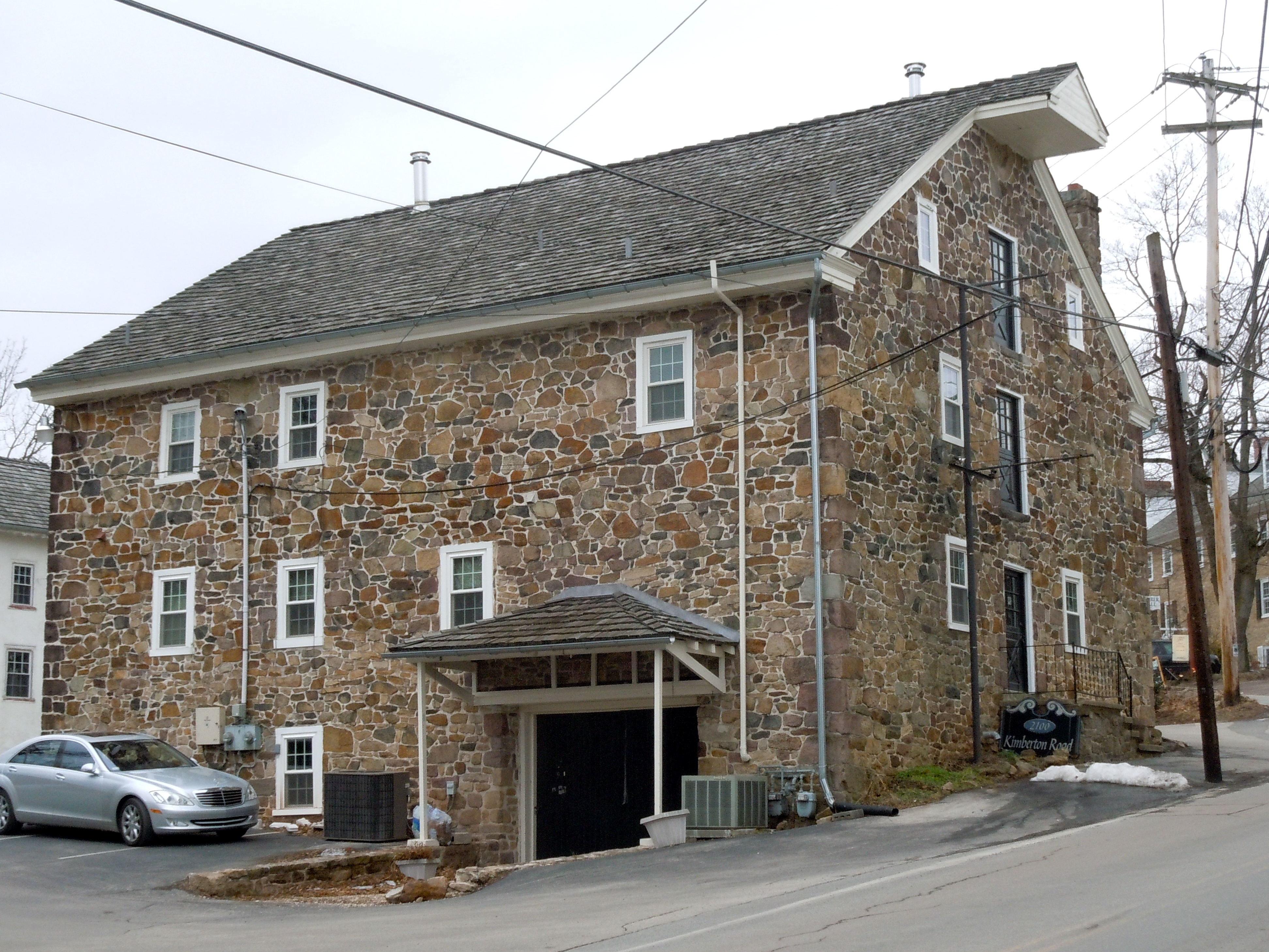 Kimberton Post Office building in Kimberton Village Historic District, on the NRHP since May 6, 1976. The HD is on both sides of Hares Hill Road between Kimberton and Cold Stream, in East Pikeland Township, Chester County, Pennsylvania. The Post Office building is at 2100 Kimberton Road and appears to be early 1800s barn, mill or warehouse.